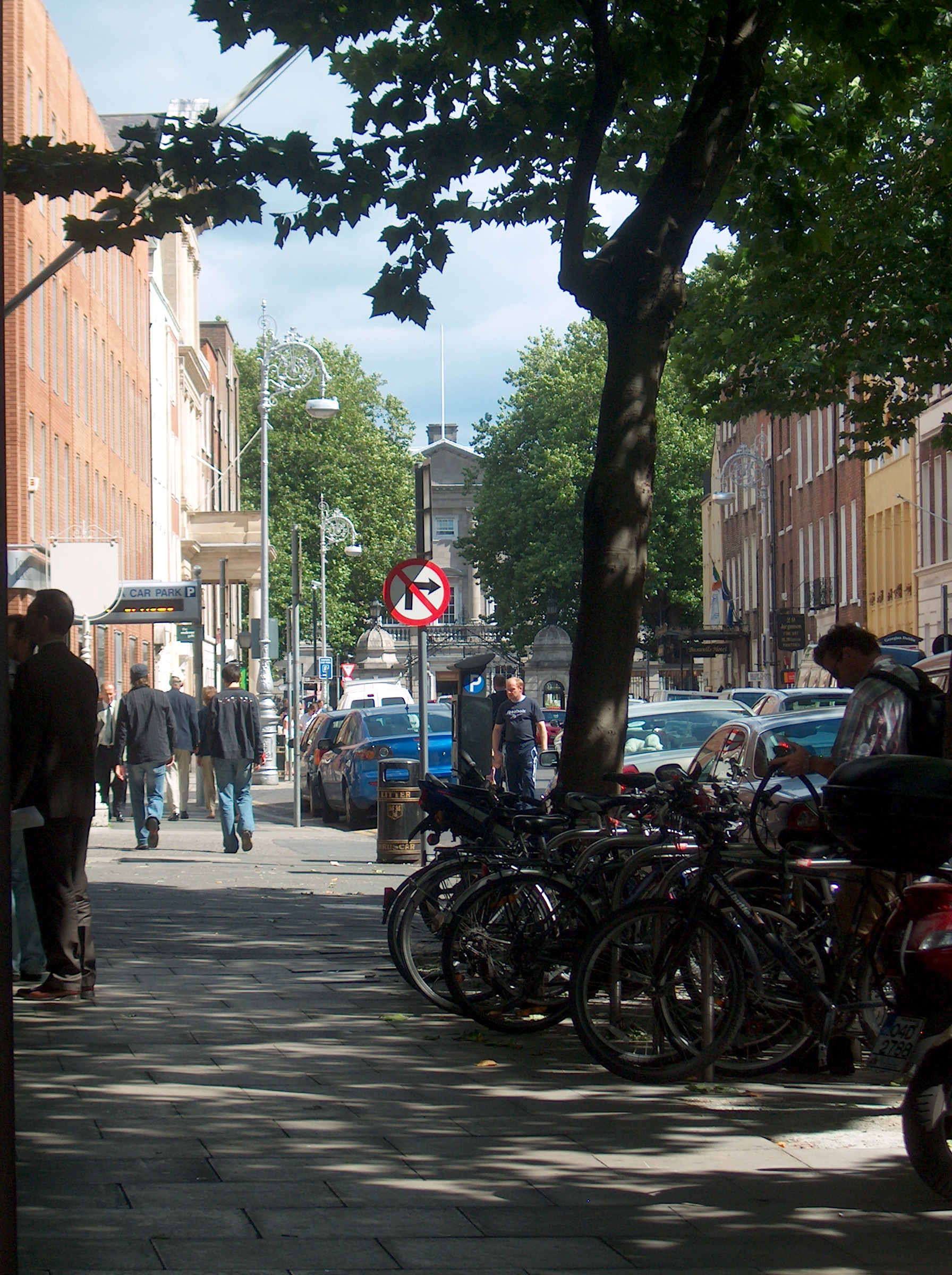 A street scene on Molesworth Street, Dublin. People walking, trees, bicycles. Looking east towards Leinster House, which can be seen partially in the background.